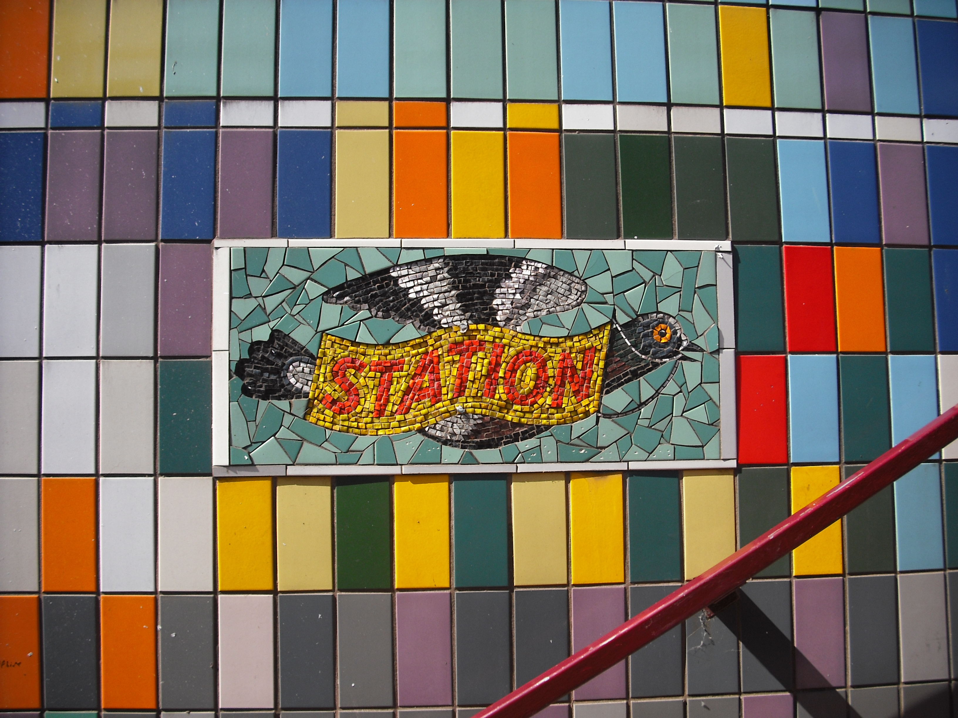 Tiles with sign, Old Green Interchange, Newport